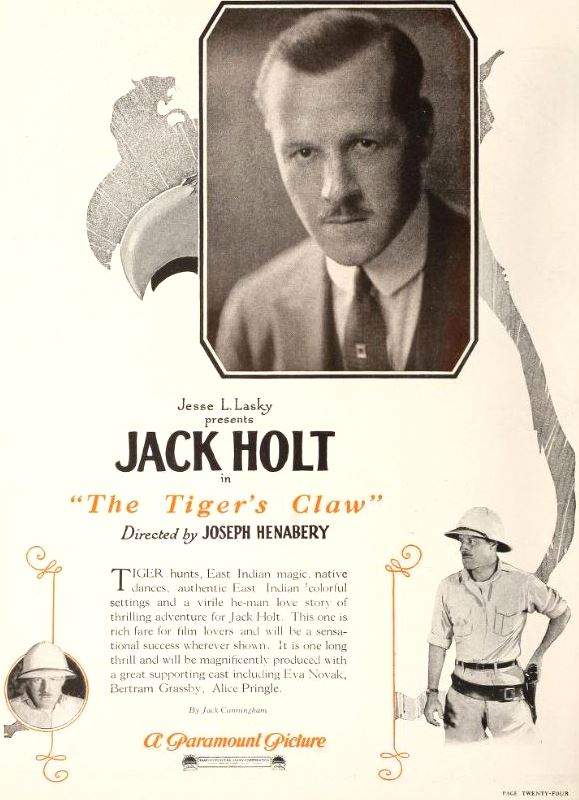 Advertisement for the American drama film The Tiger's Claw (1923) with Jack Holt, page 24 of the insert of upcoming Paramount releases, from the collection of loose pages from the 1923 Exhibitors Trade Review [829 of 1164].